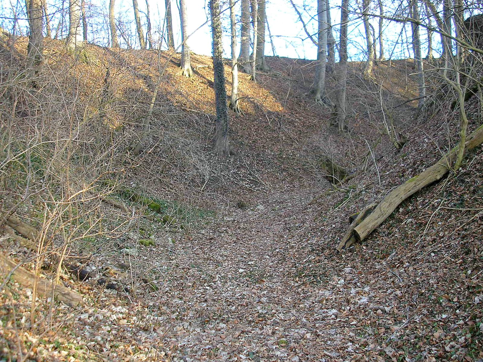 Helmishofen castle near Markt Kaltental (Landkreis Ostallgäu, Bavaria, Germany). The northern moat of the central castle, looking east